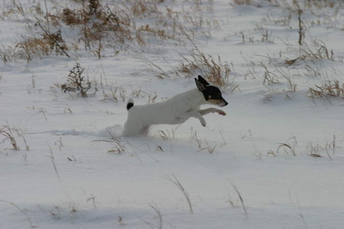 Toy Fox Terriers are happy to go out on warm winter days.